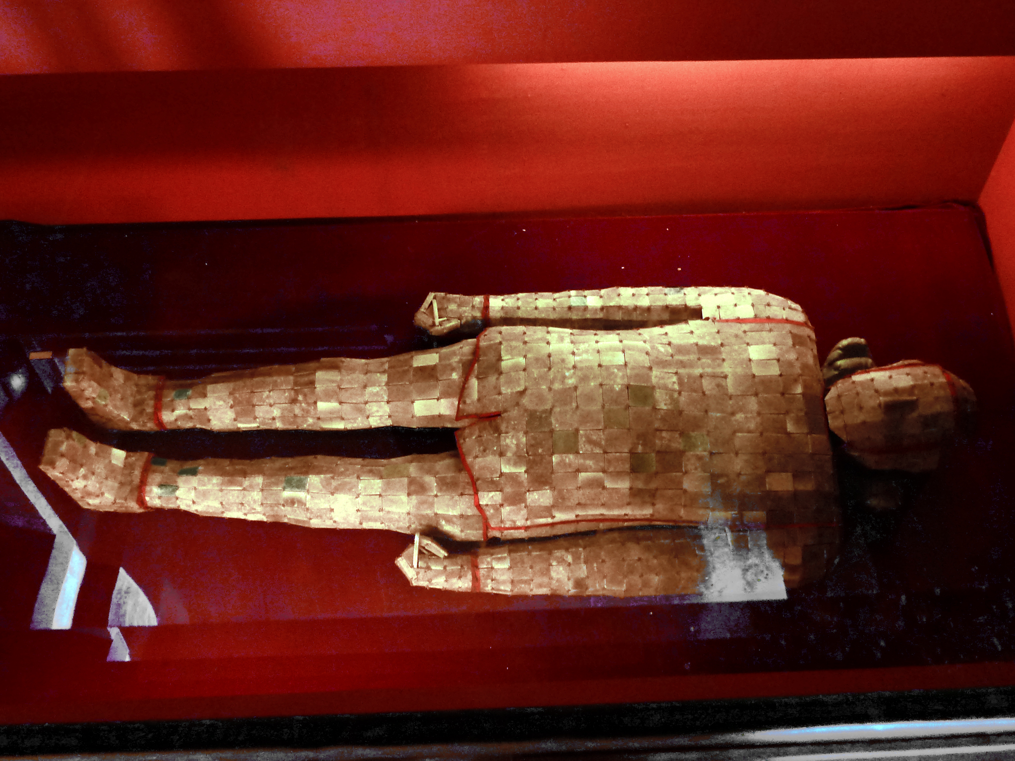 Replica of the burial jade suit from the tomb of Liu Xu (刘胥), in the collection of the Han Guangling Tomb Museum, Yangzhou.